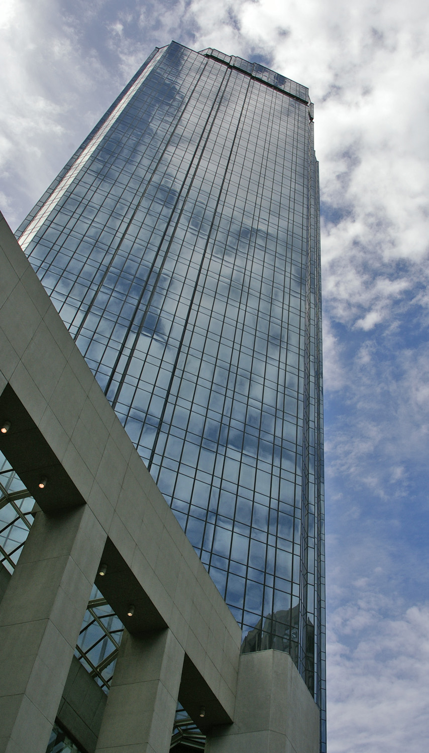 Rialto Towers, Collins Street, Melbourne